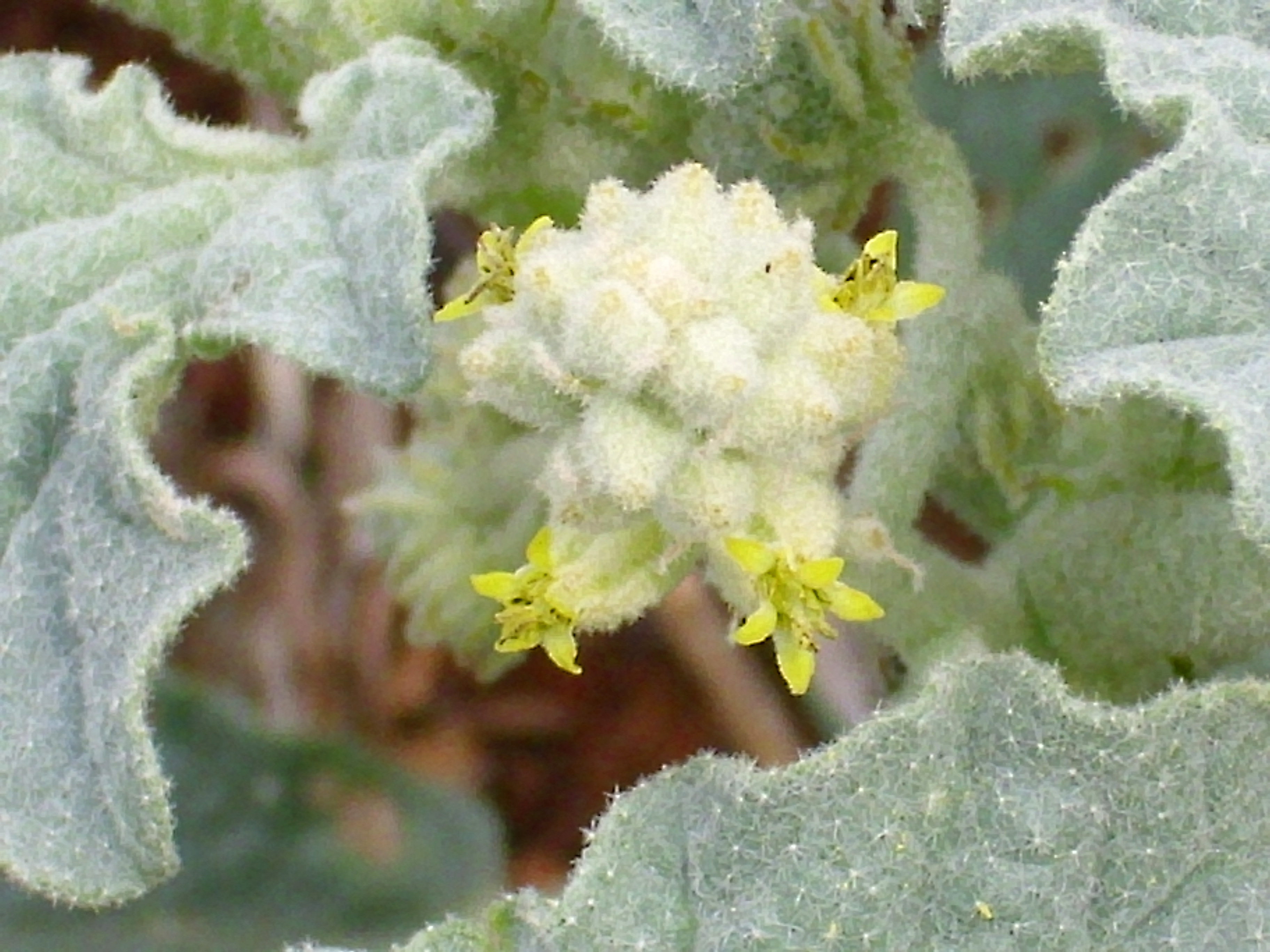 Chrozophora tinctoria flowers close up, Dehesa Boyal de Puertollano, Spain